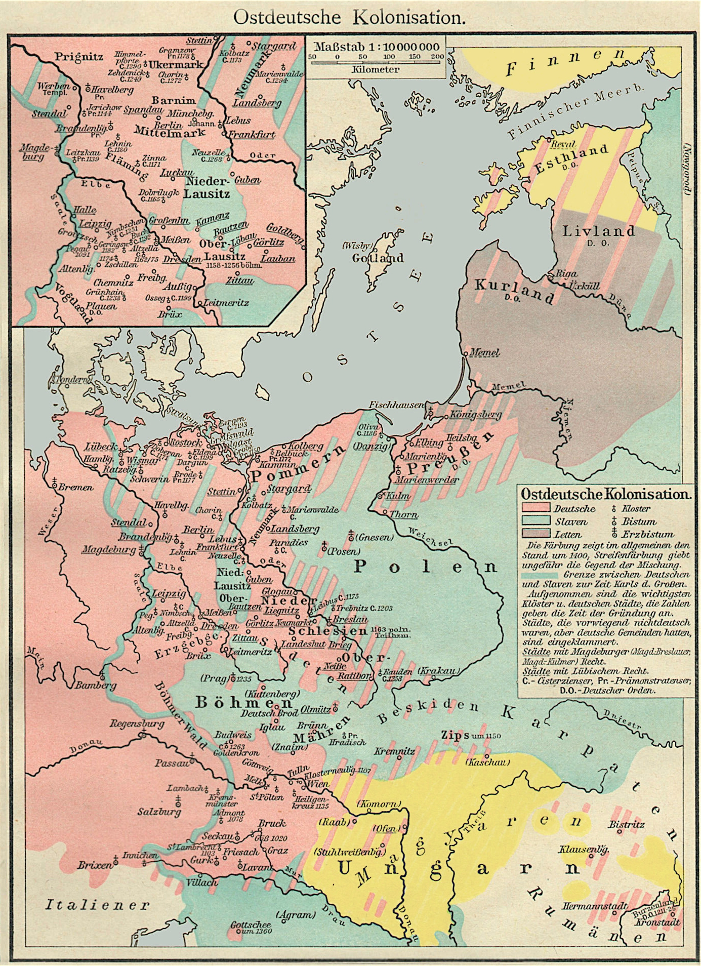 German map of the German & others populations & settlements in the Middle-Age between 9th century and c. 1400 AD.